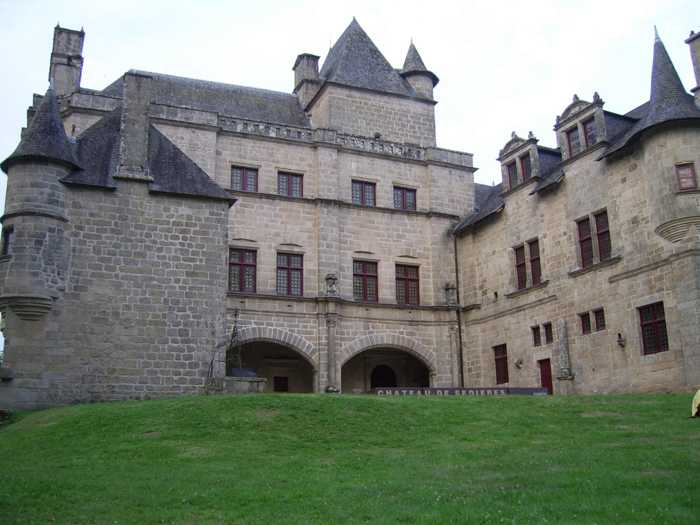 Castle of Sédières , Clergoux, Corrèze - France